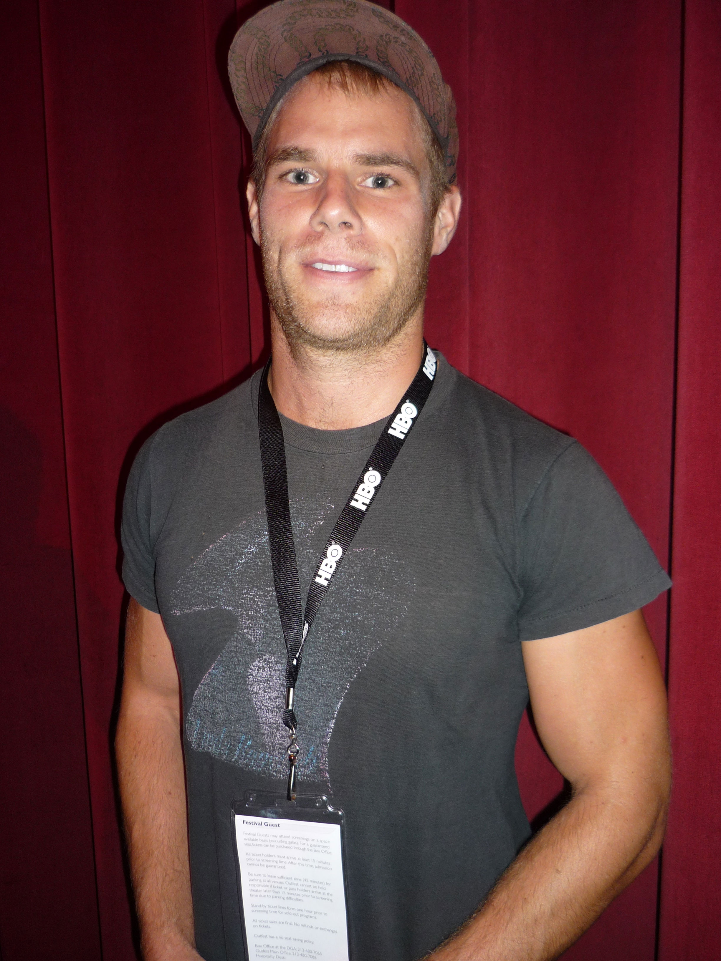 Photo of Matthew Wilkas